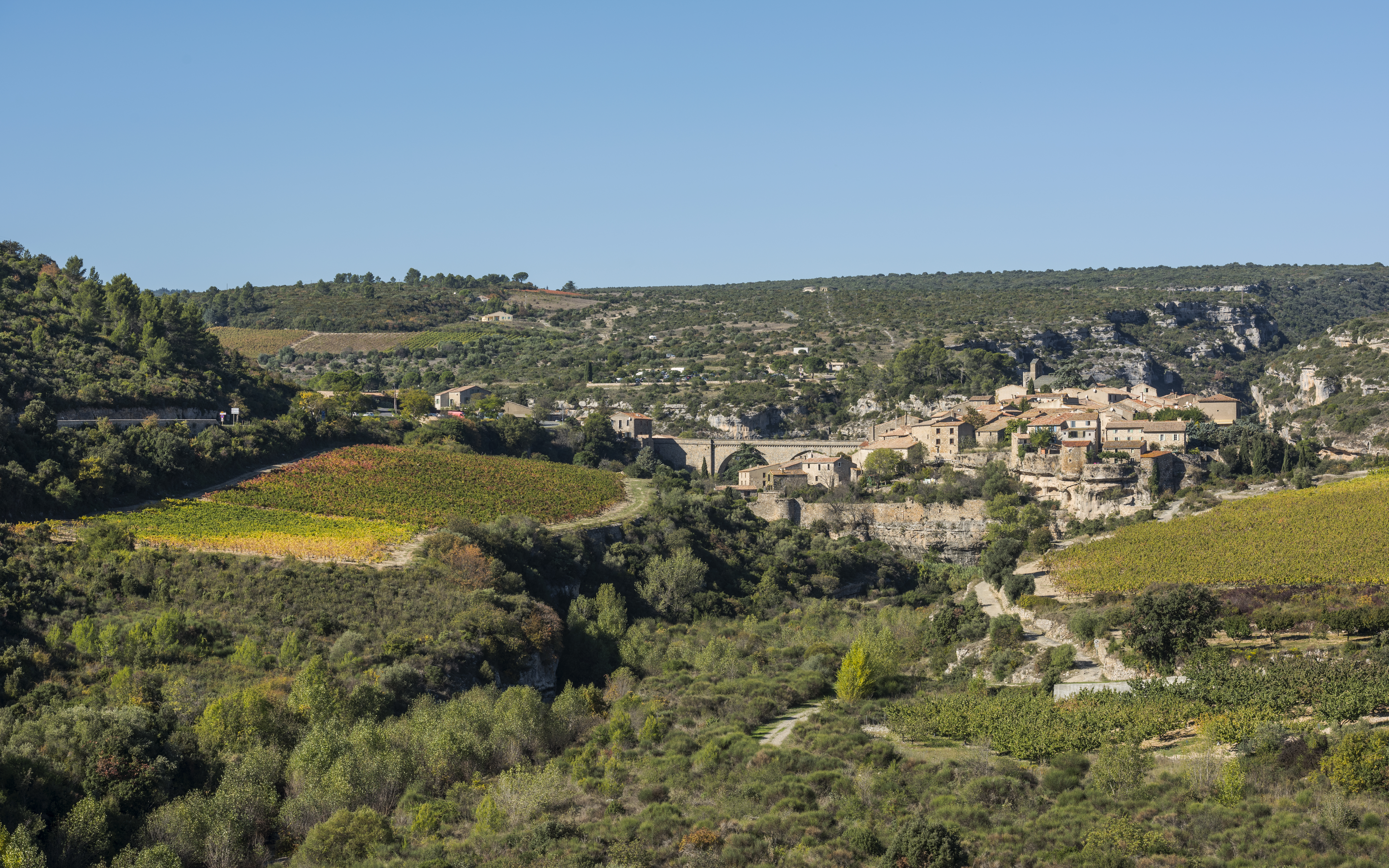 The village of Minerve surrounded by vineyards and hills. Hérault, France